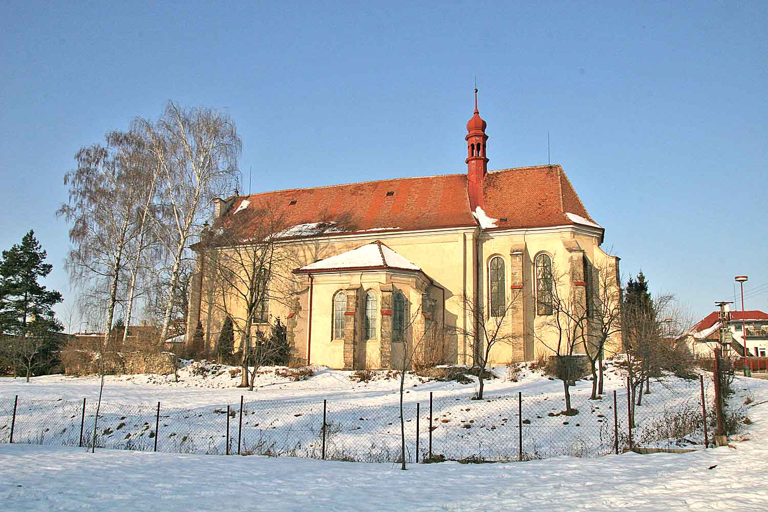 Holy Trinity church in Sezemice, Pardubice District, Czech Republic.